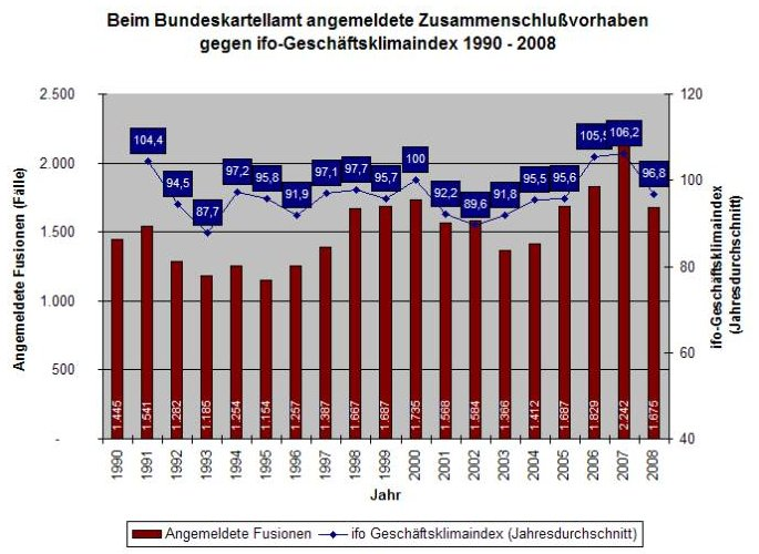 Number of concentrations notified to the German competition authority, compared to ifo-index